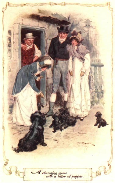 Colour illustration of a 1907 edition of Northanger Abbey (Jane Austen's novel), by C. E. Brock (died 1938)